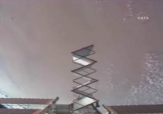 The crew of ISS unfolds the Radiator of Truss P4 .